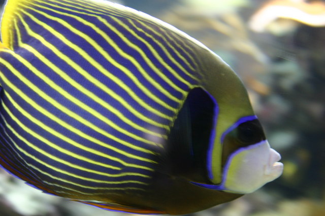 The Blue Planet Aquarium